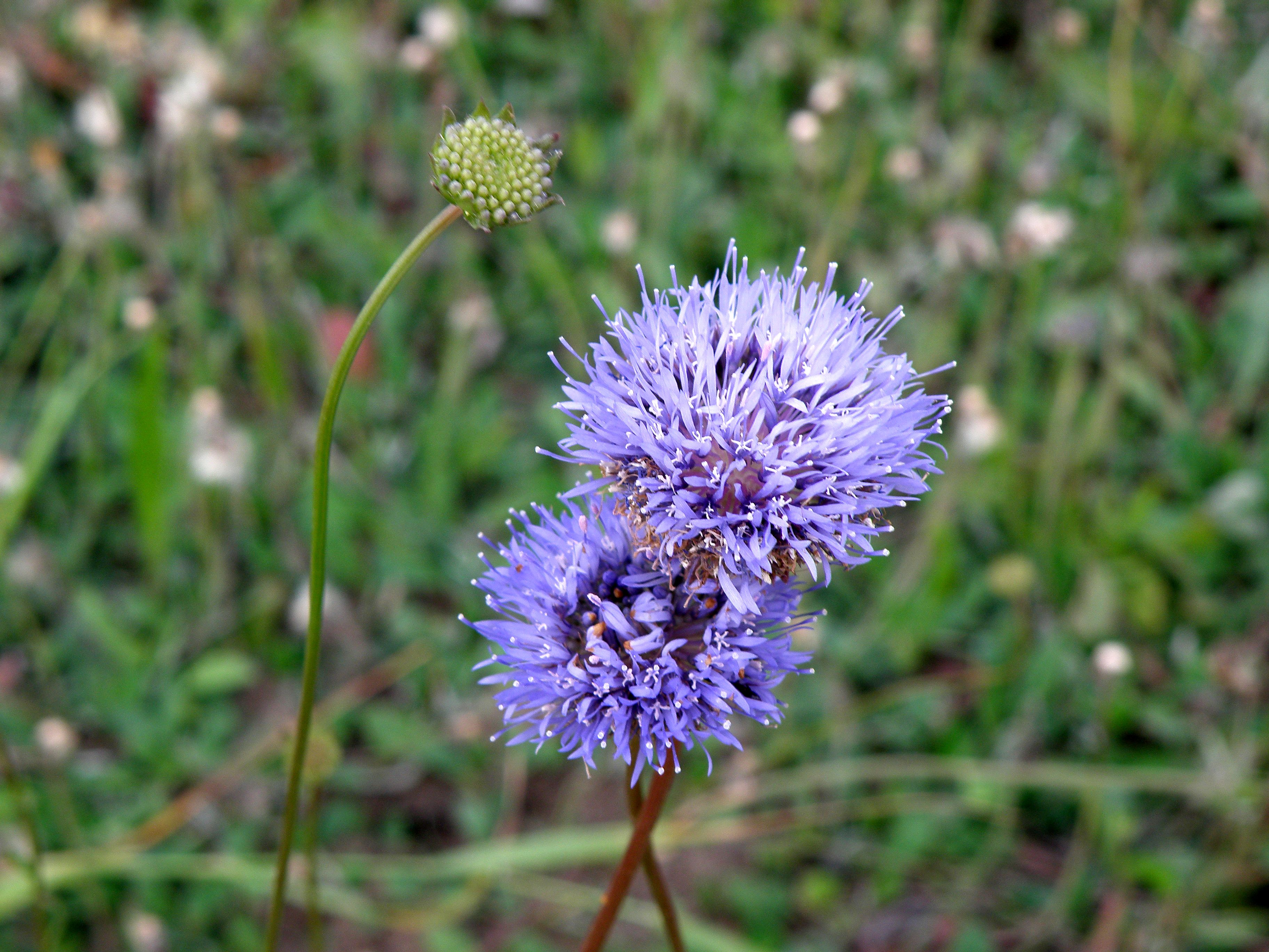 Jasione montana, Łomianki, Poland